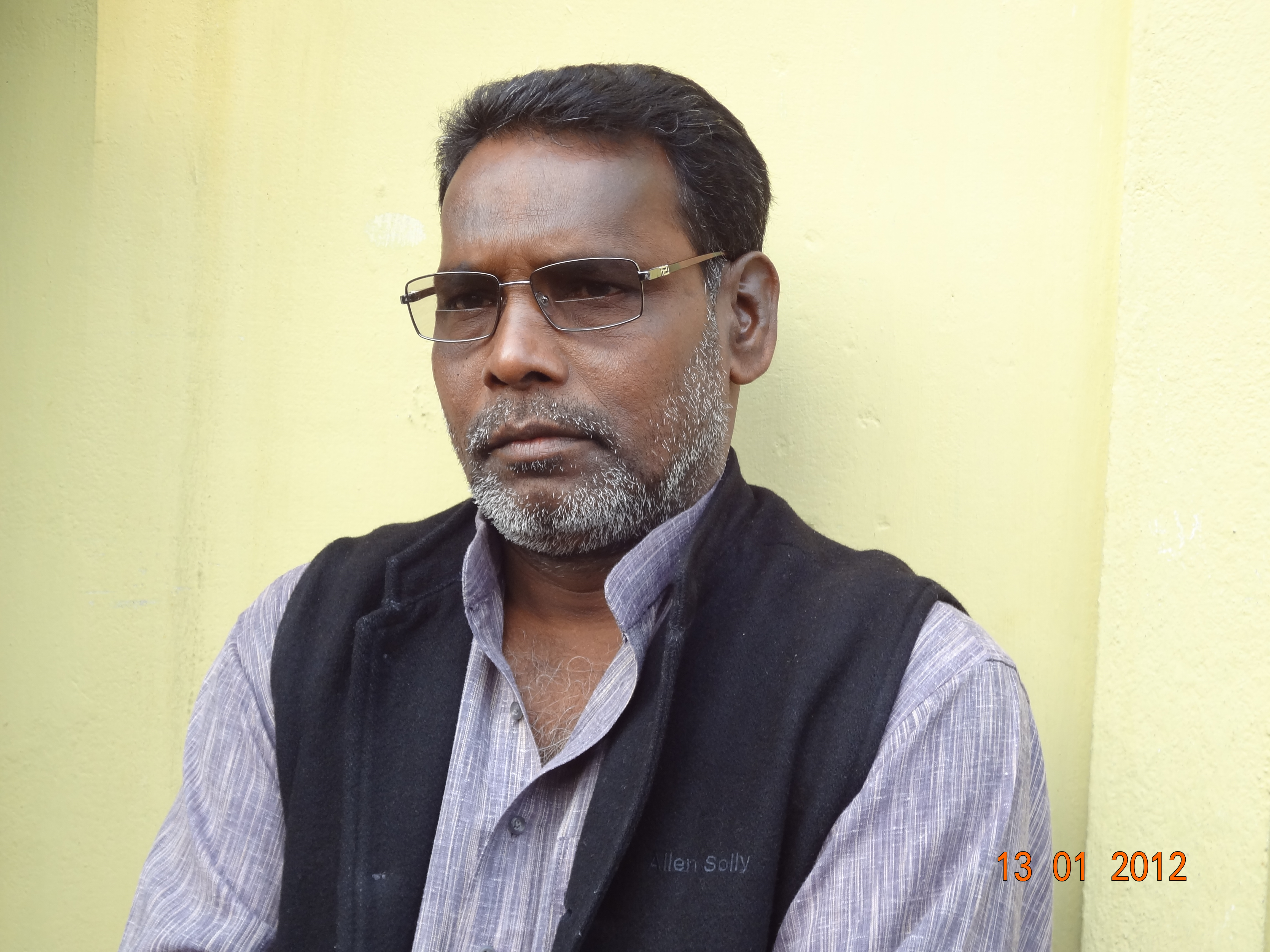 A renowned Odia poet.